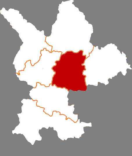 Location of Longxi county in Dingxi city, China